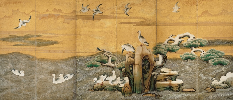 Waterfowl of the winter beach in a six-leaf screen(right panel). Important Cultural Properties of Japan